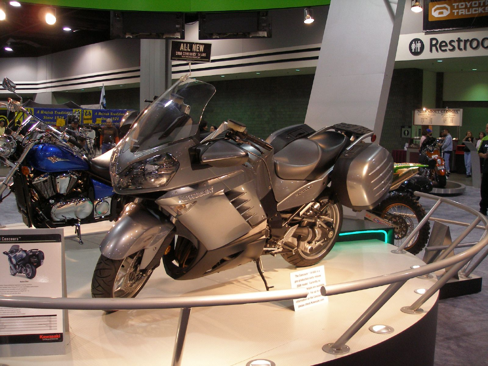 The new Kawasaki Concours. It has a 1,352 CC engine (as opposed to the previous 999 CC motor). It looks sleek and sexy, even if it is currently only in Old Man Grey. Kawasaki will have to put this thing in a more vibrant color.